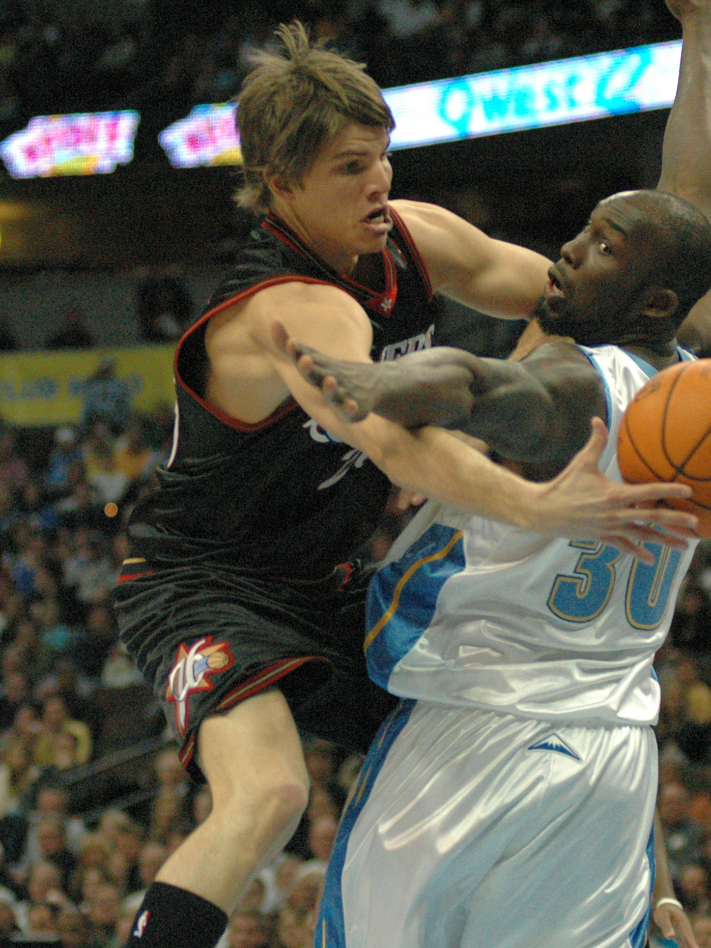 This file has been extracted from another file: Kyle Korver vs Reggie Evans.jpg